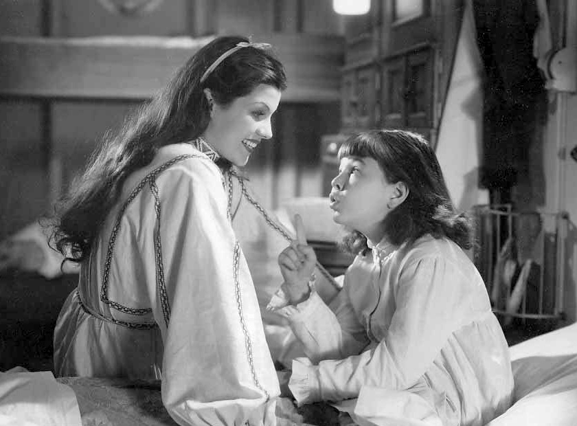 Photograph of Rita Hayworth and Jane Withers in Paddy O'Day